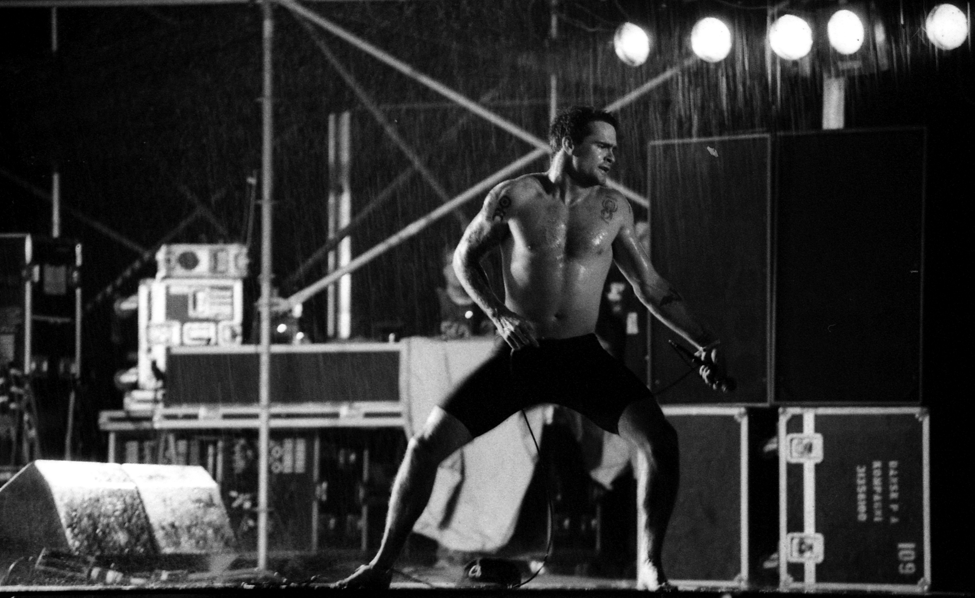 Henry Rollins performing with Rollins Band at Hultsfredsfestivalen in 1993.